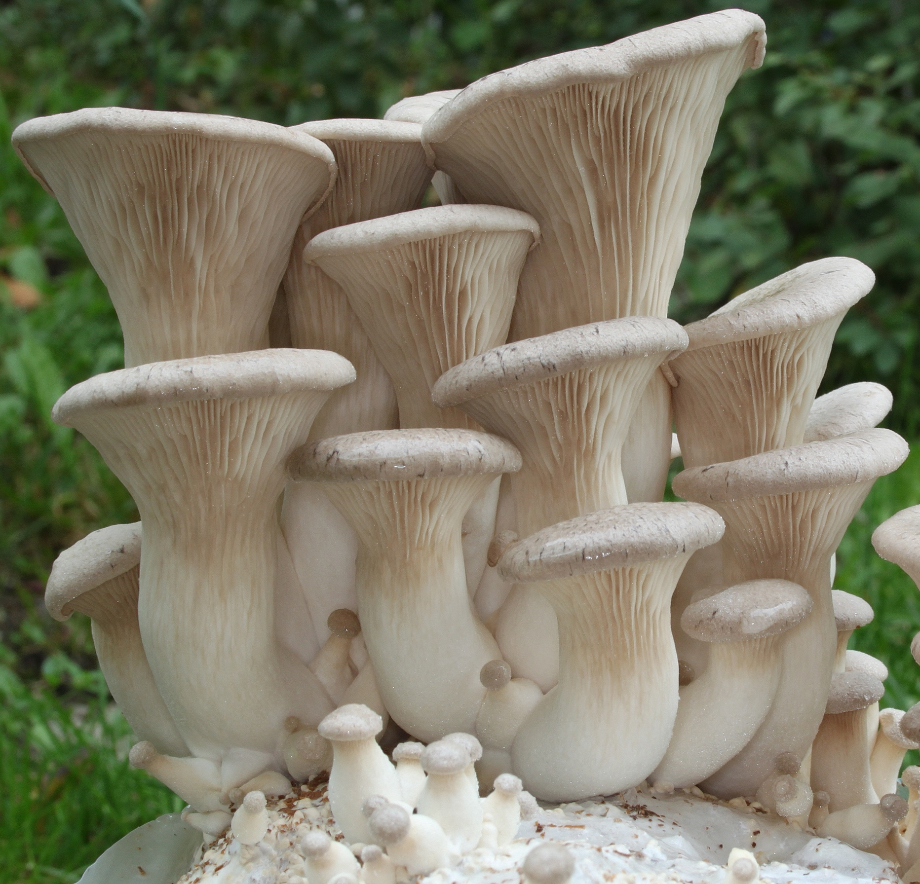 fungi